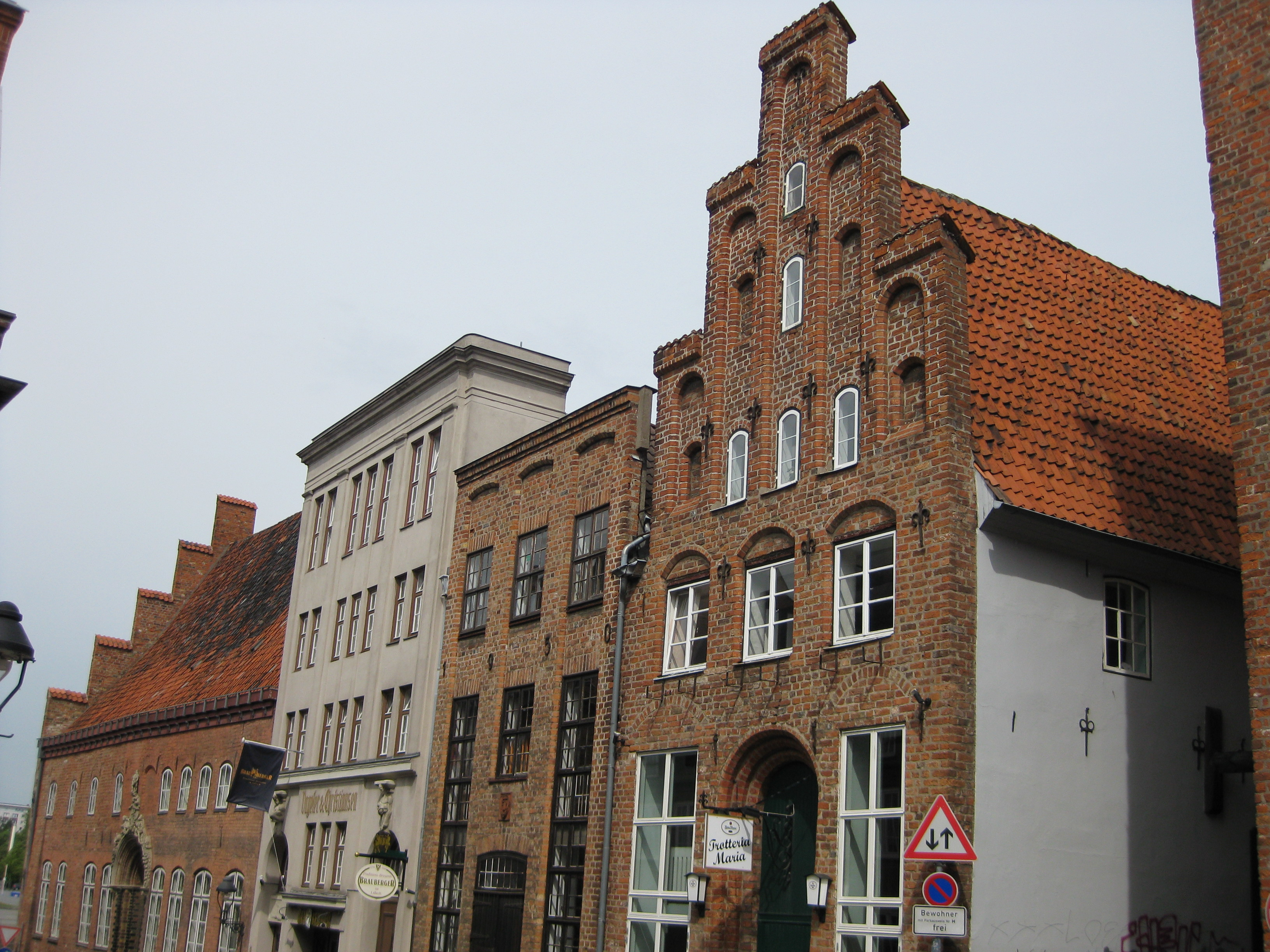 Buildings Alfstraße 32, 34, 36, 38 in Lübeck